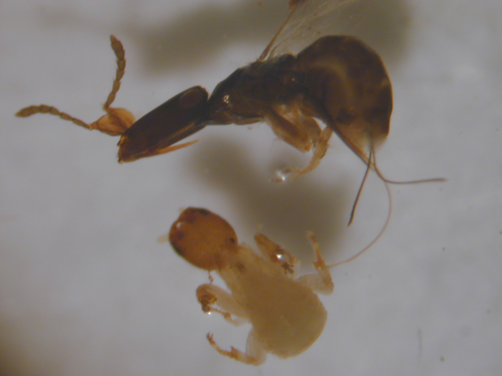 Ficus cf. platypoda (Agaonidae Pleistodontes imperialis male and female 000928 31 ex fruit). Location: Maui, Twin falls